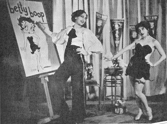 This is from a old photograph which shows Little ann L Rothschild being painted by Pauline Comanor